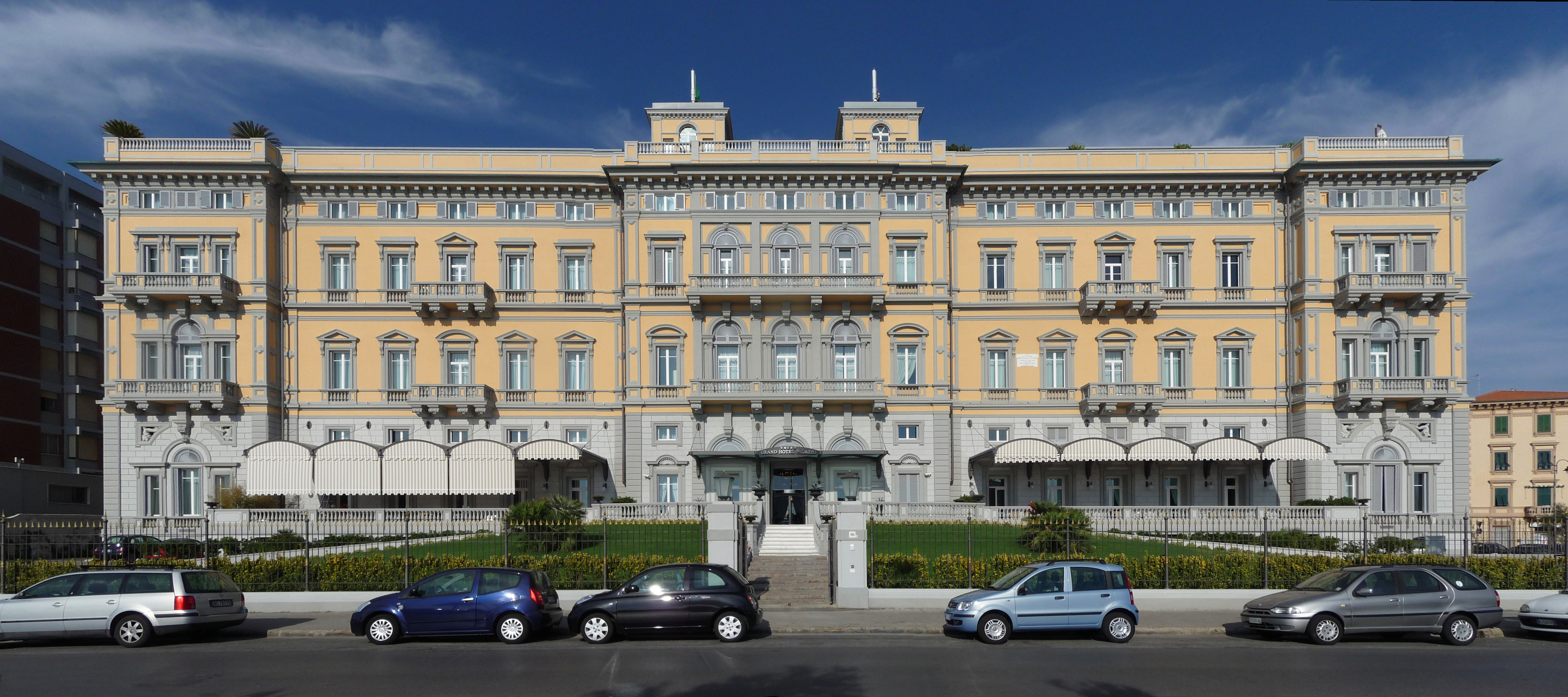 Grand Hotel Palazzo, Livorno, Italy